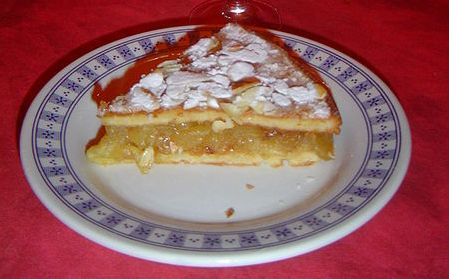 The Vitreais, breton cake from Vitré